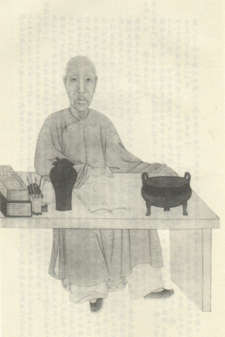 RUAN Yuan, politician and scholar of the Qing Dynasty.